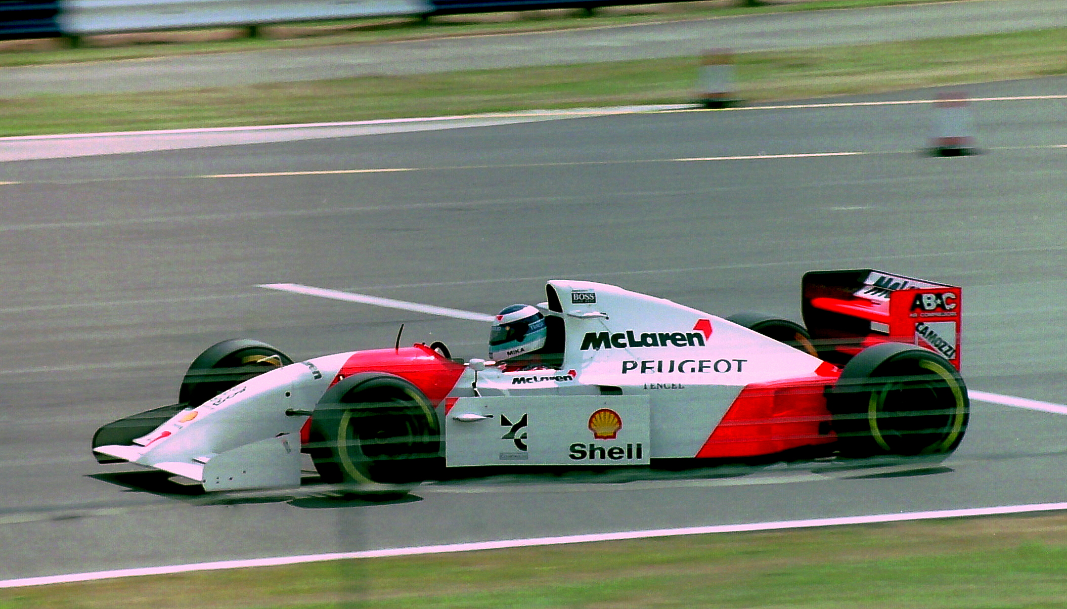 Mika Hakkinen - Mclaren MP4-9 at the 1994 British Grand Prix